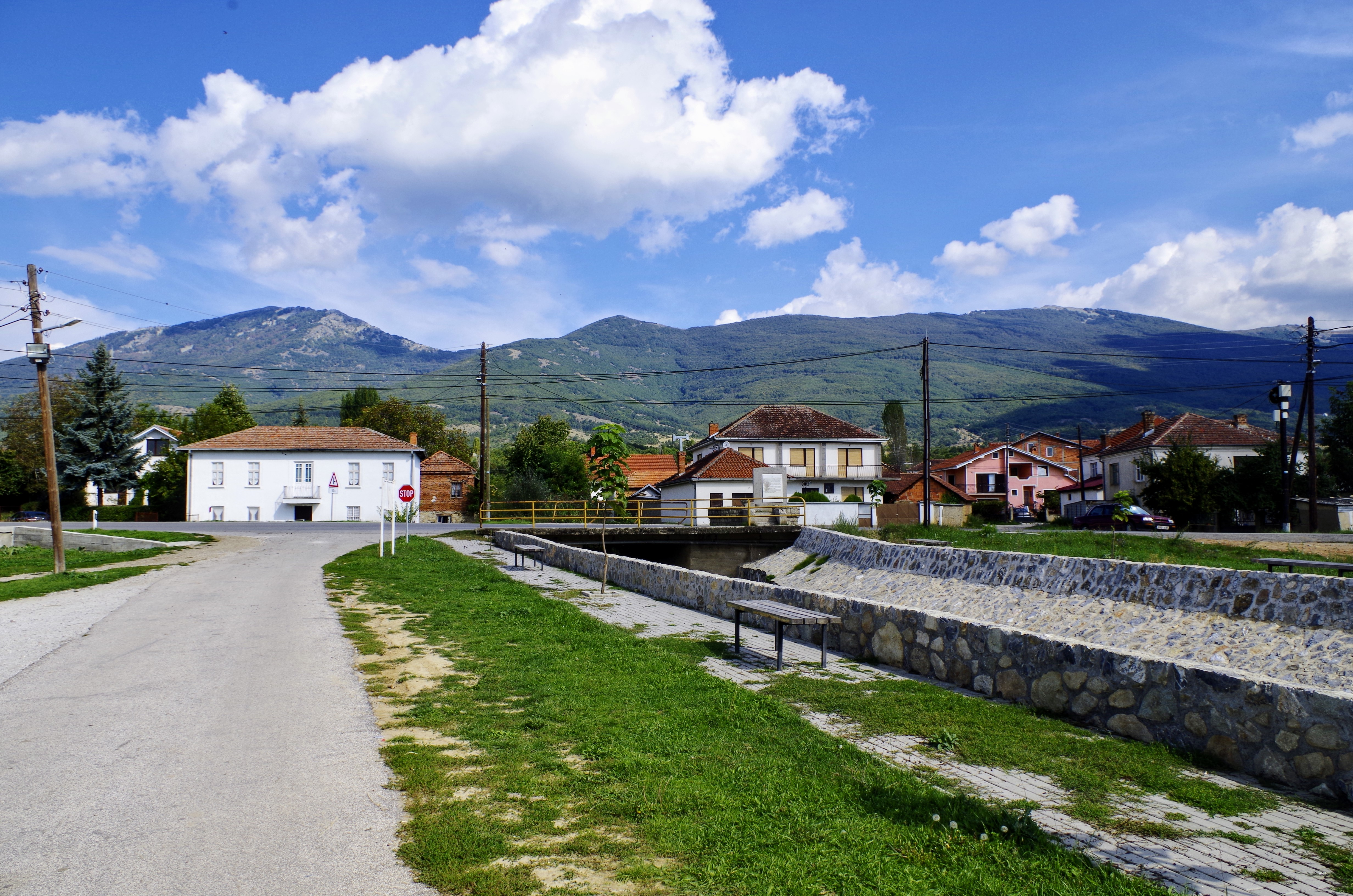 View of the village Podmočani